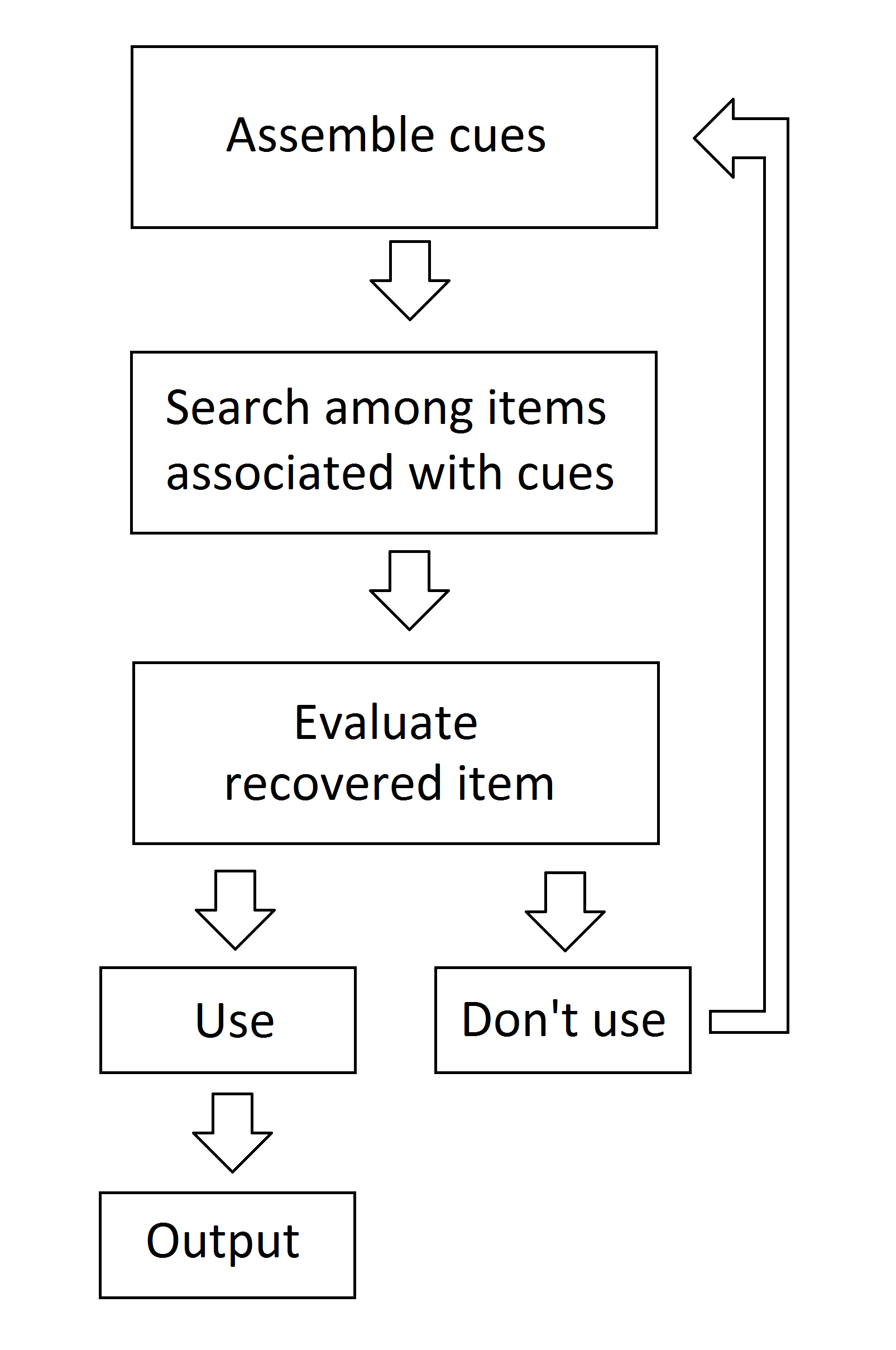 Simplification of the diagram found in a paper by Raaijmakers, Jeroen G. W. and Shiffrin, Richard M. titled "Search of associative memory". Source: Raaijmakers, Jeroen G. W.; Shiffrin, Richard M. (1981). "Search of associative memory". Psychological Review 88 (2): 93–134.